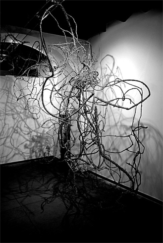 a wire-twig installation of variable dimensions in a gallery space in Rome